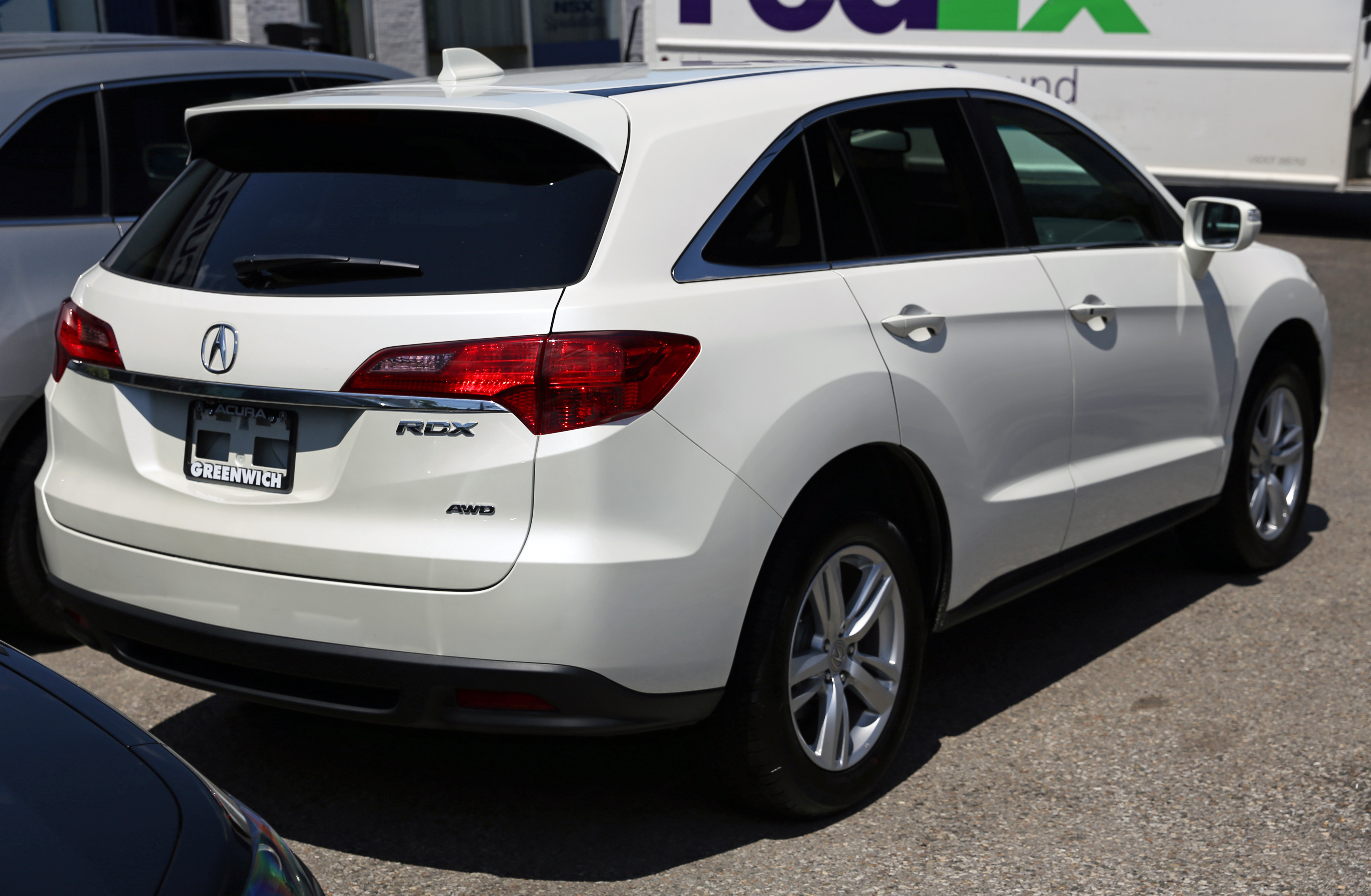 Rear view of 2013 Acura RDX, second generation. Internal code is TB4 (AWD). FWD = TB3).